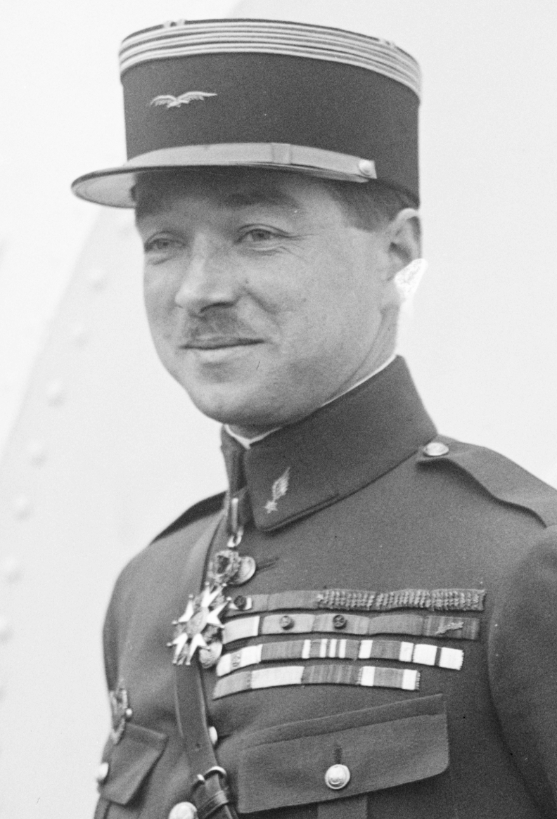 French aviator René Fonck (1894-1953)